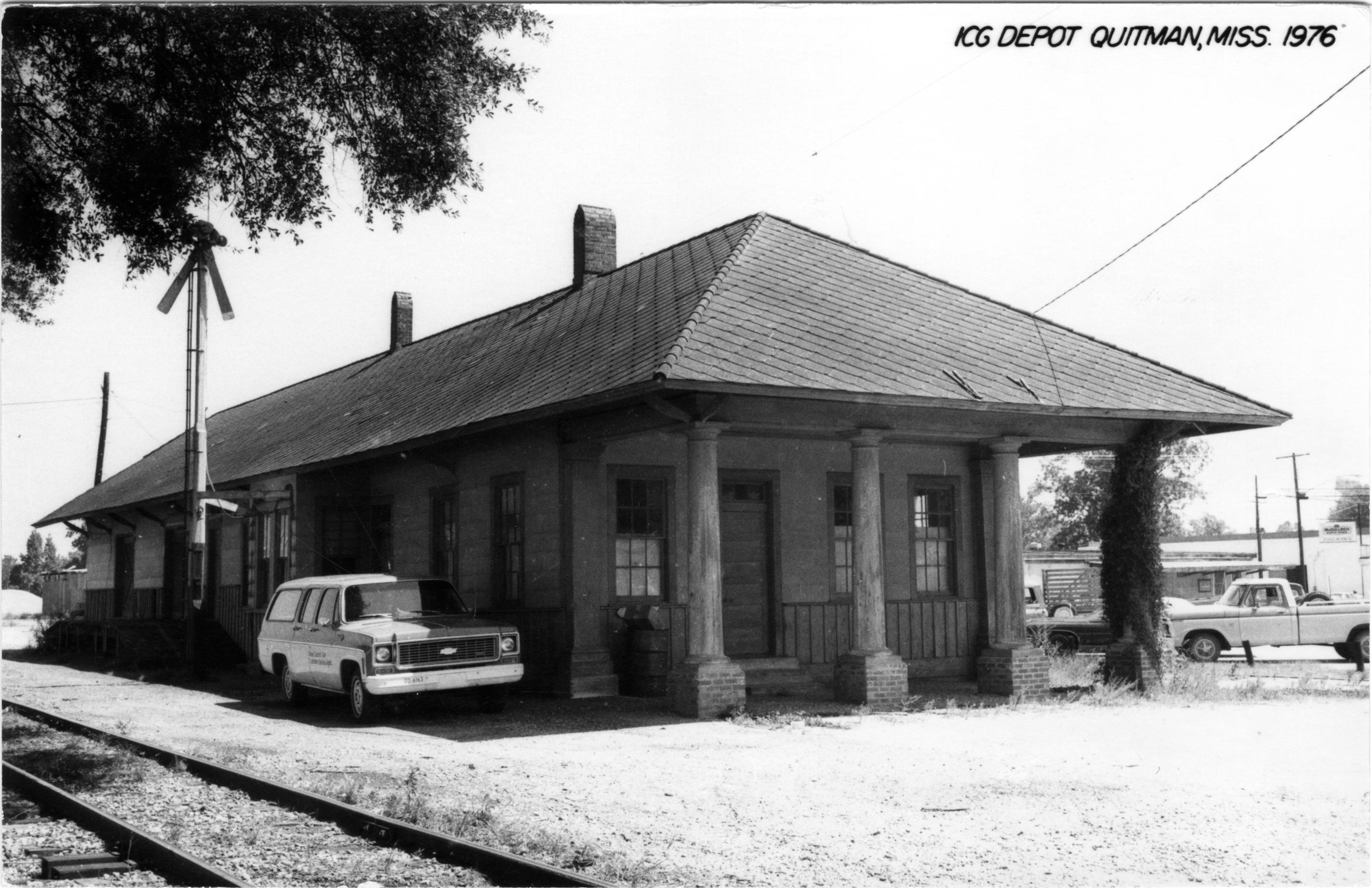 Collection: Railroad Depot Postcard Collection Call number: PI/1987.0009 System ID: 77423 ICG Depot, Quitman, Miss. 1976. Please see our profile page for information on ordering. Scanned as tiff in 2008/11/12 by MDAH. Credit: Courtesy of the Mississippi Department of Archives and History